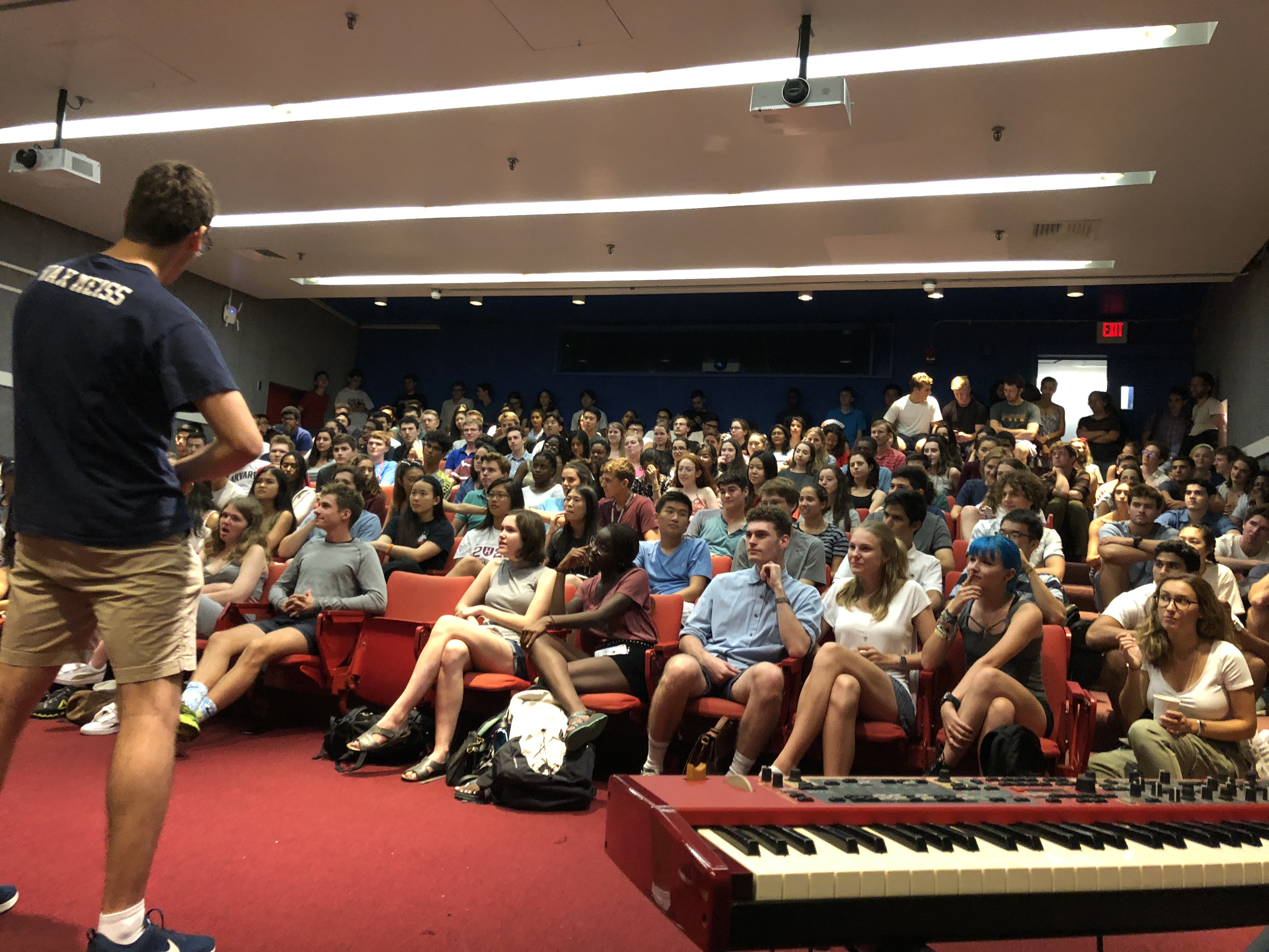 OTI performing in Harvard's Science Center.